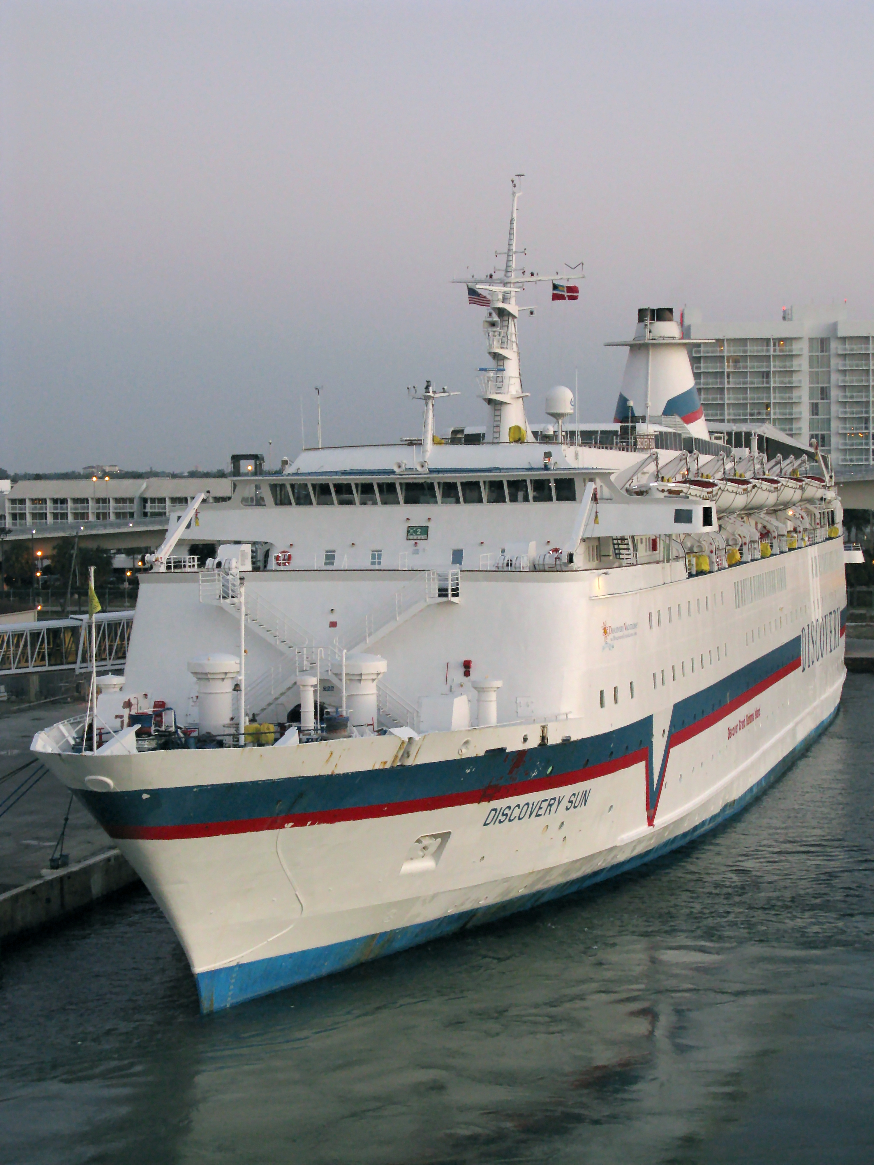 Discovery Sun moored in Port Everglades, Florida.